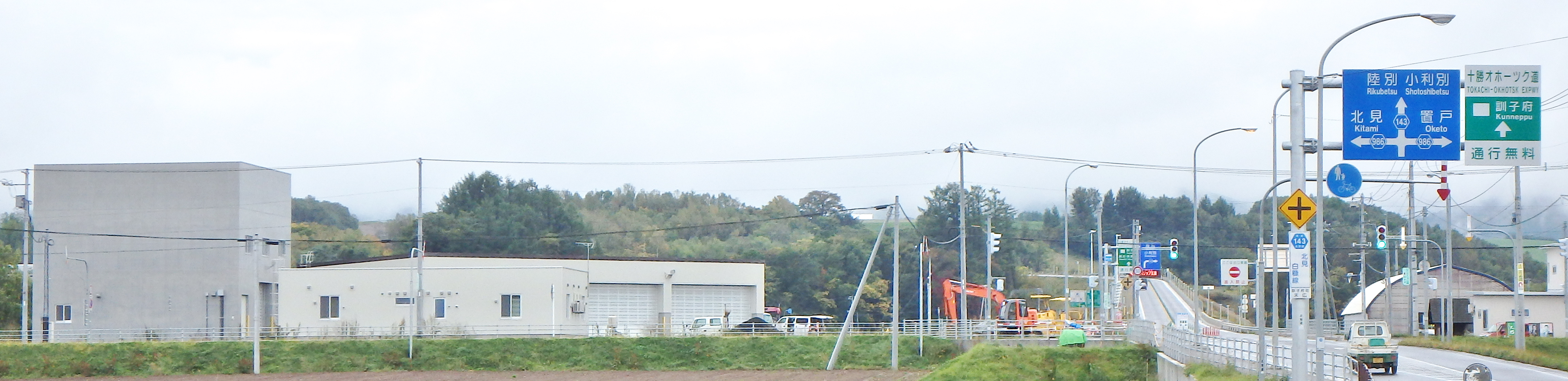 Kunneppu, Hokkaido Inter Change ,Hokkaido prefecture,Japan